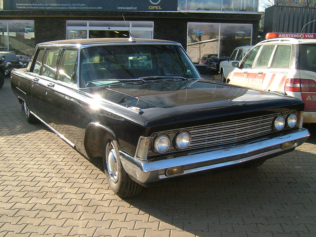 These limousines of the Brezhnev-era were all built at the Likhachev automotive plant in Moscow, and only for politicians. Earlier specimens such as this have become quite rare, and the total production (1967-1978) of standard models yielded no more than 123 units. In the latter years, about 2 dozen special versions were also built, including shorter units (Zil-117), several hatched-roofed versions(Zil-114K) and 2 wagons (Zil-114EA), all to take part in various government convoys. The Zil 425ci V8 engine featured an aluminum cylinder block, a transistorised ignition system and hydraulic valve lifters. The entire car was designed around a very stiff armored passenger compartment. The suspension was designed to provide a very stable ride and did not tilt in any direction upon accelerating, braking or cornering. The main systems of the car were also duplicated: two battery backup systems, redundant brake system, etc.